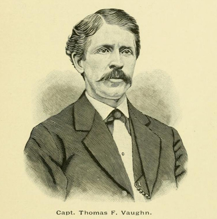 Captain Thomas F. Vaughan (Battery B, 1st Rhode Island Light Artillery)